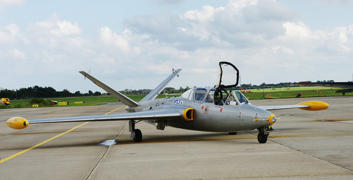 Fouga Magister (OY-FGA) ready for start with owner-pilot Niels Egelund in the front seat - at Roskilde Airshow 2011, Roskilde Airport, Denmark